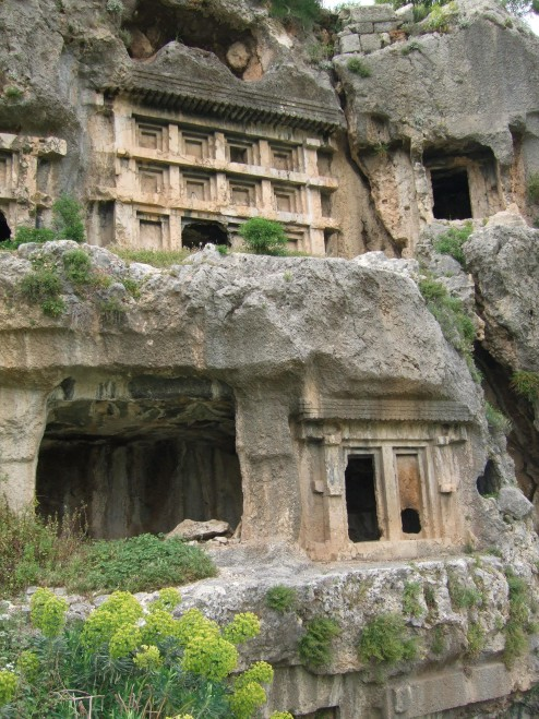 Lycian rock tombs at Tlos